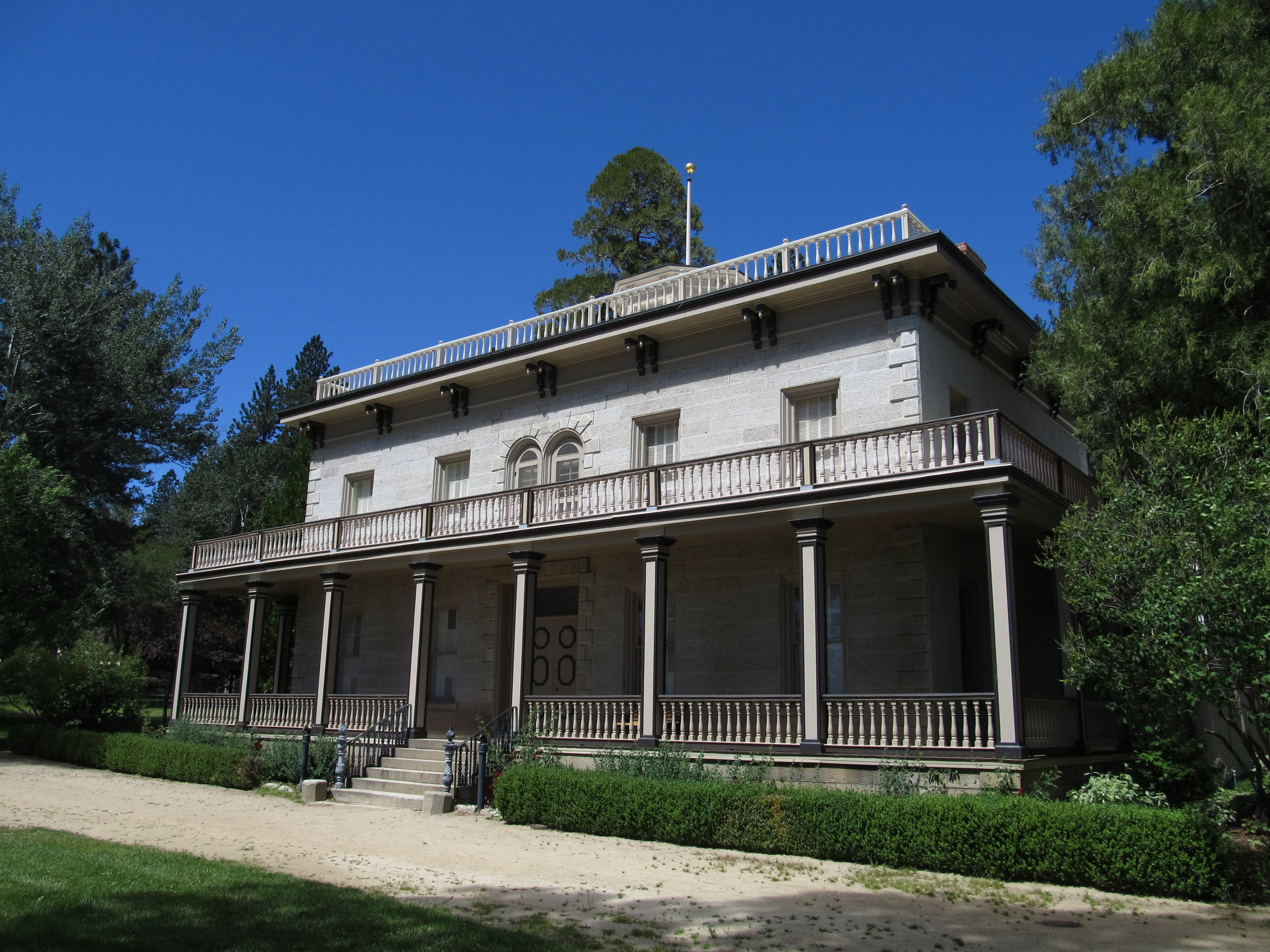 NRHP-listed Bowers Mansion in Washoe County, Nevada. It was renovated sometime after 1940, and so looks significantly different than File:Bowers Mansion FSA.jpg.